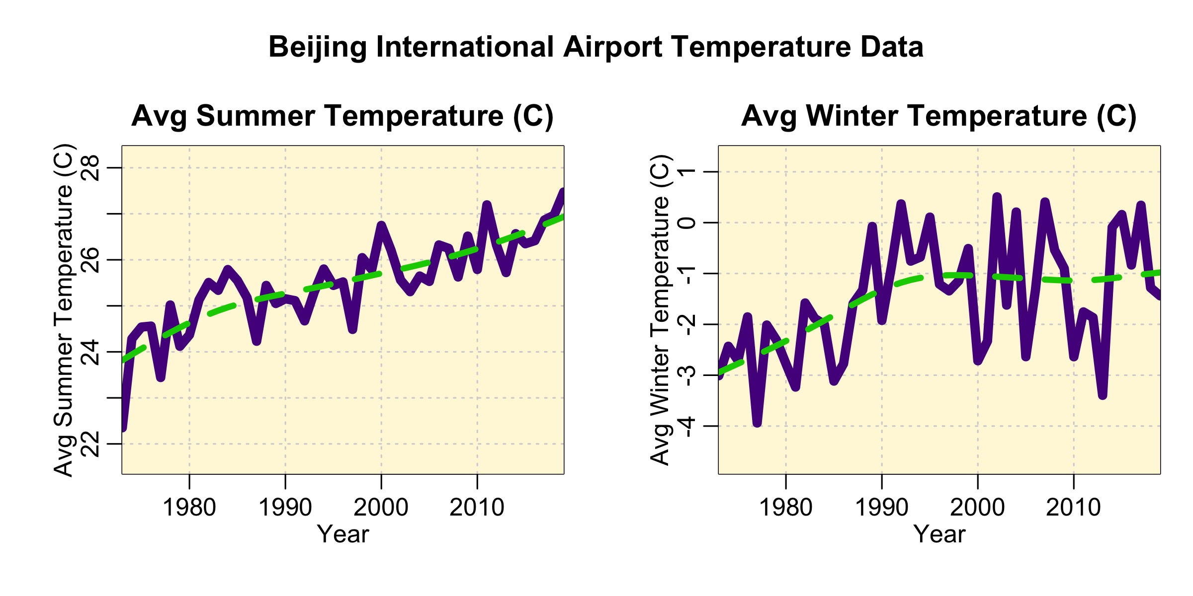 Average annual temperatures during summer (June, July, and August) and winter (December, January, and February) at Beijing international airport, from 1970 to 2019. Data from ftp://ftp.ncdc.noaa.gov/pub/data/noaa/ For comparison, the Global Surface Temperature Anomaly rose approximately one degree over the same time period.